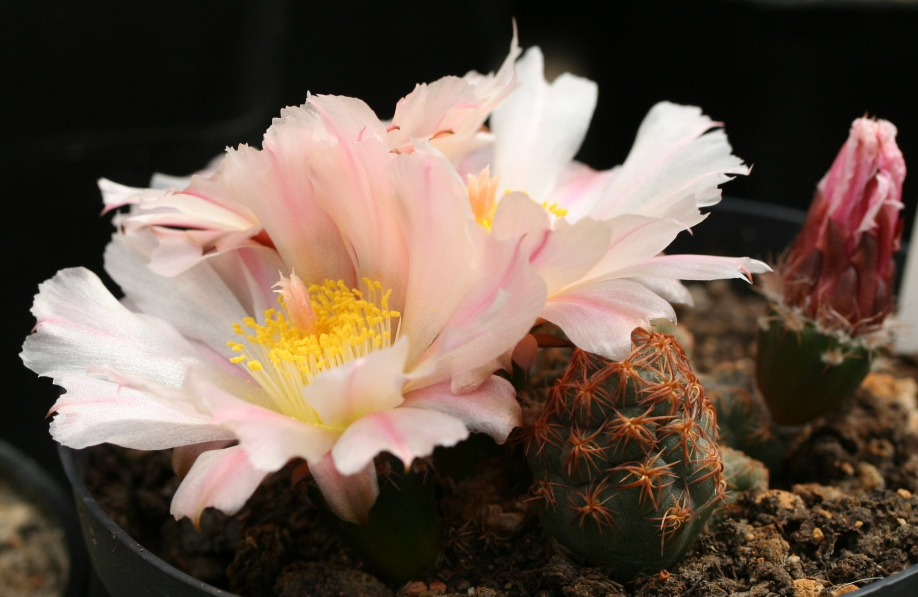 Maihueniopsis bonnieae Flower